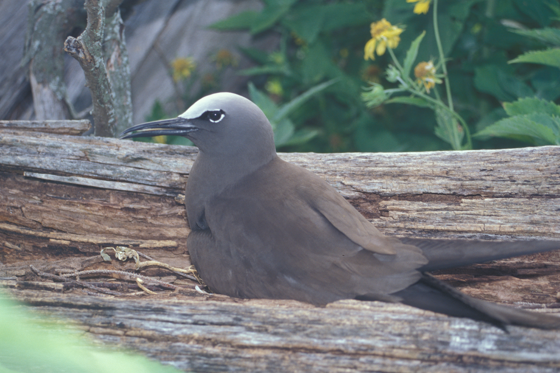 Casuarina equisetifolia (with Anous stolidus). Location: Midway Atoll, Eastern Island